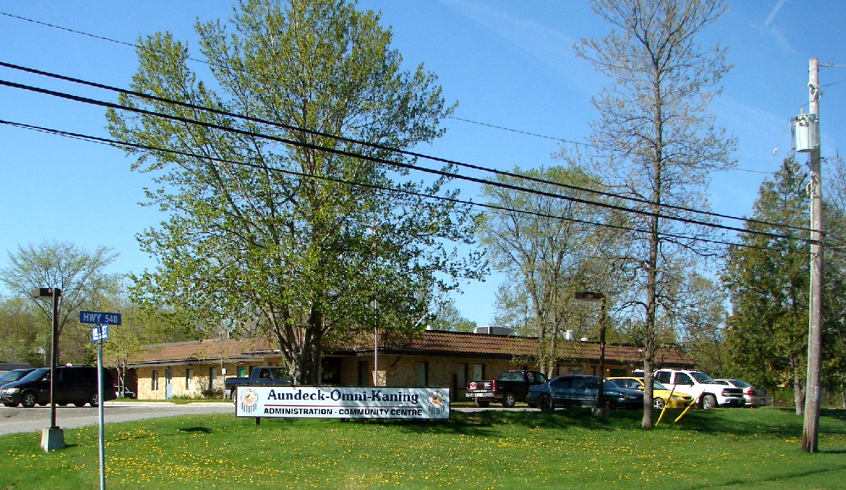 Sucker Creek, Aundeck-Omni-Kaning First Nation Reserve, Manitoulin Island, Ontario, Canada